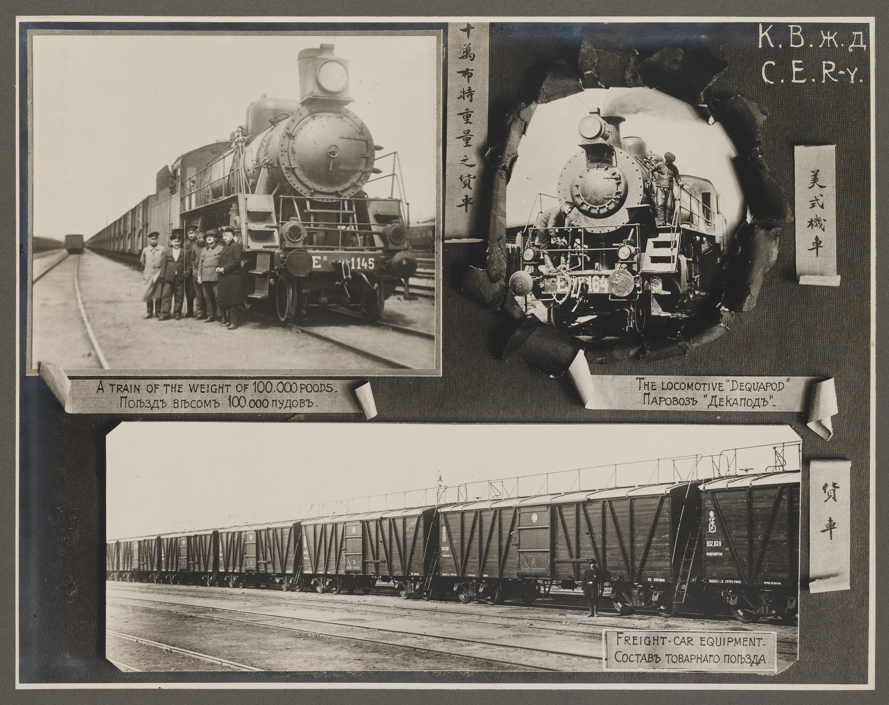 Title: [Chinese Eastern Railway: Exterior Views of Locomotives and Freight Cars] Creator: Unknown Date: ca. 1903-1919 Place: People's Republic of China Part Of: Description: This photograph is part of an album, Views of the Chinese Eastern Railway, which contains 42 photographic prints. The Chinese Eastern Railway, also known as the Trans-Manchurian line of the Trans-Siberian Railway, linked Chita to Vladivostok. Physical Description: 1 photographic print: gelatin silver, part of 1 volume (42 gelatin silver prints); 21 x 27 cm on 27 x 38 cm File: ag1987_0662x_09_opt.jpg Rights: Please cite DeGolyer Library, Southern Methodist University when using this file. A high-resolution version of this file may be obtained for a fee. For details see the web page. For other information, . For more information, View the full album: View the